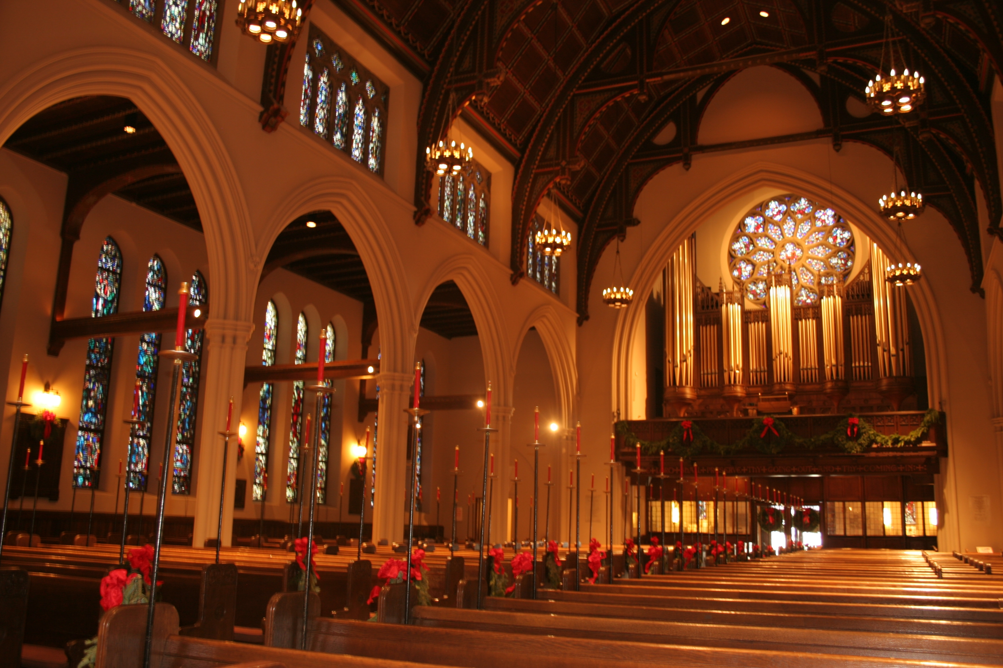 St. James' Church (Episcopal), New York City, in the Christmas season.